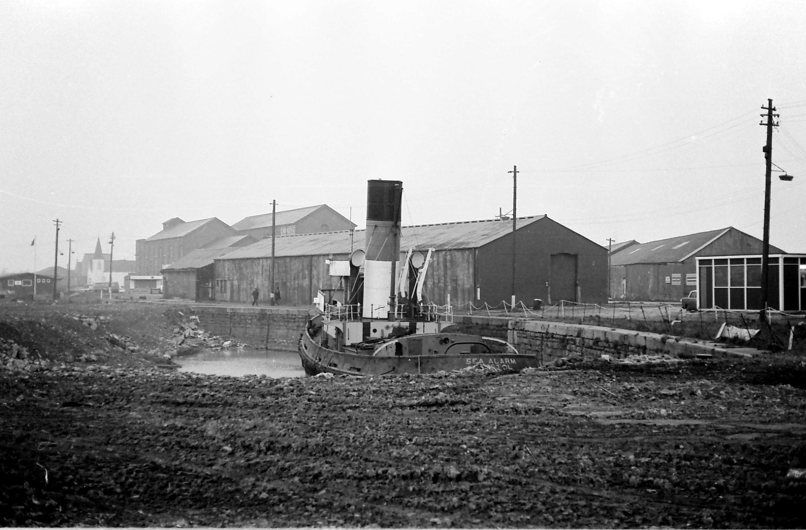 The tugboat Sea Alarm stranded in Cardiff Docks prior to her becoming an exhibit at the Welsh Industrial and Maritime Museum. The Norwegian Church is in the background, in its original location.